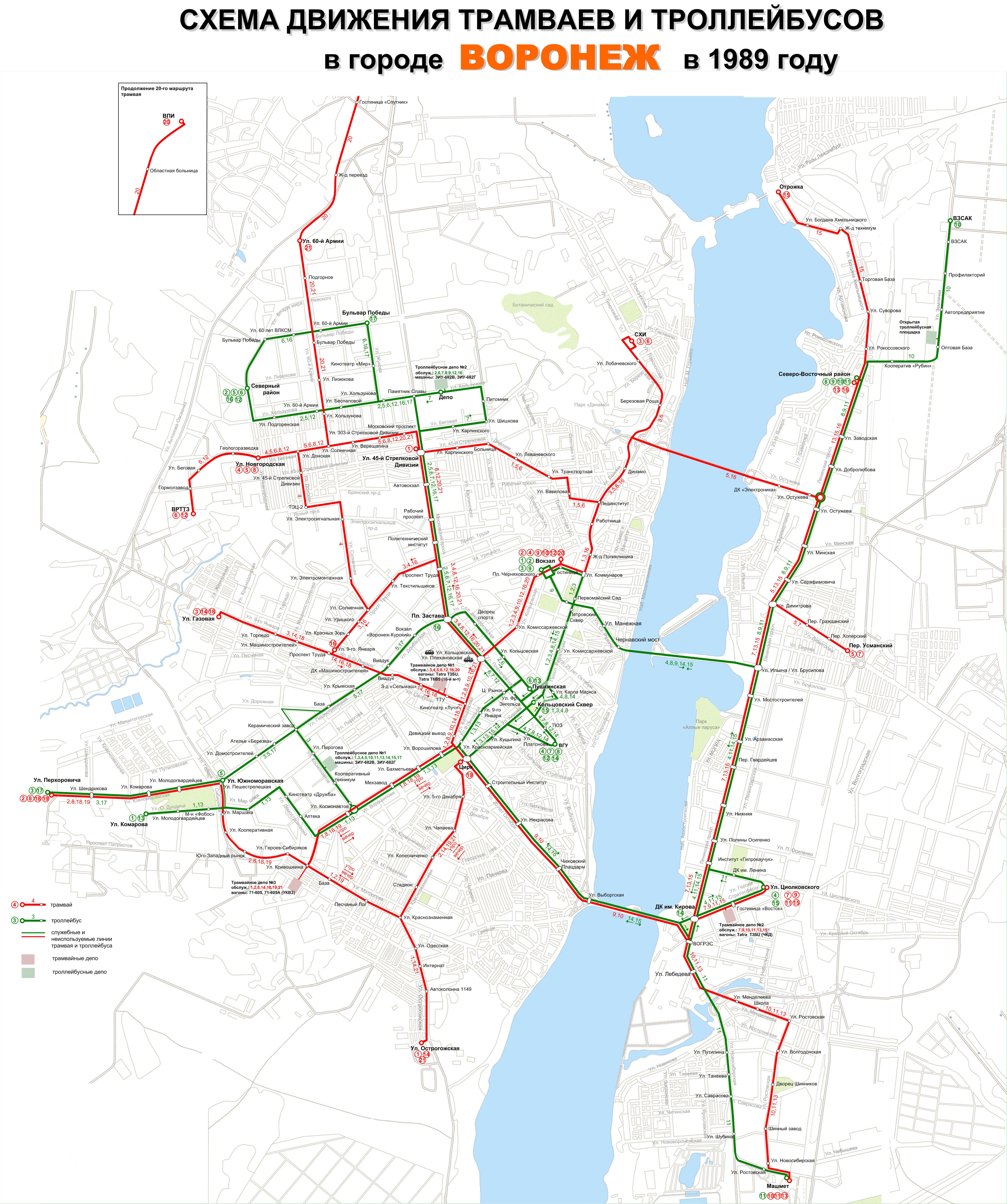 Voronezh city tram and trolleybus lines scheme, as in 1989